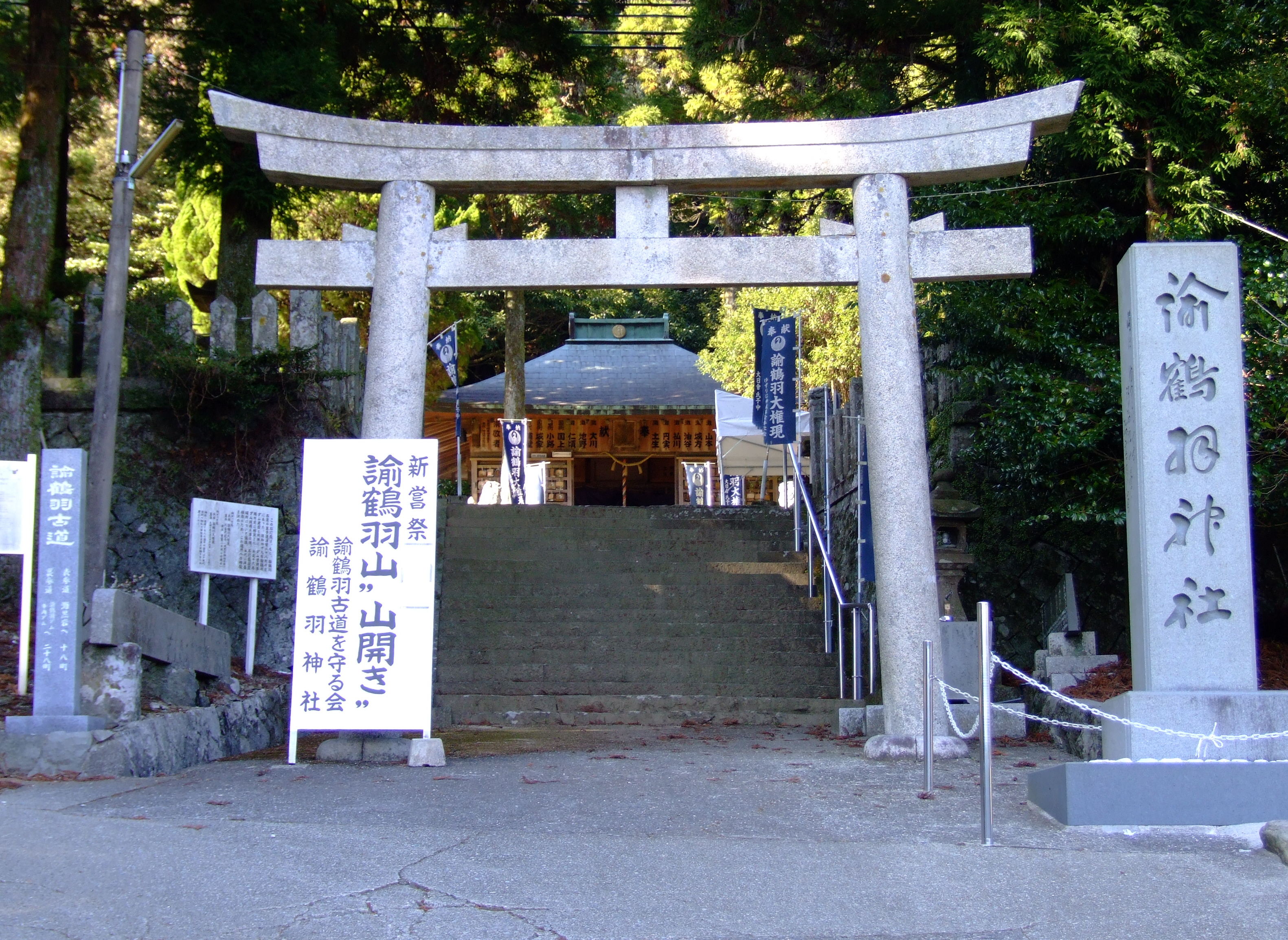 Yuzuruha-Jinjya(Shinto shrine), Awaji-shima(island).